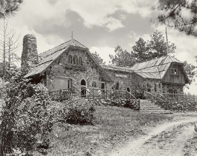 View of Chief Hosa Lodge, built beside the (onetime) Denver to San Francisco stagecoach road, in Genesee Mountain Park (Denver Mountain Parks), Jefferson County, Colorado. The rustic inn, designed by architect Jacques Benedict, is made of "Rainbow" granite and lodge-pole pine, and features hipped gables, timber siding, a deck, steps, arched doors and windows.